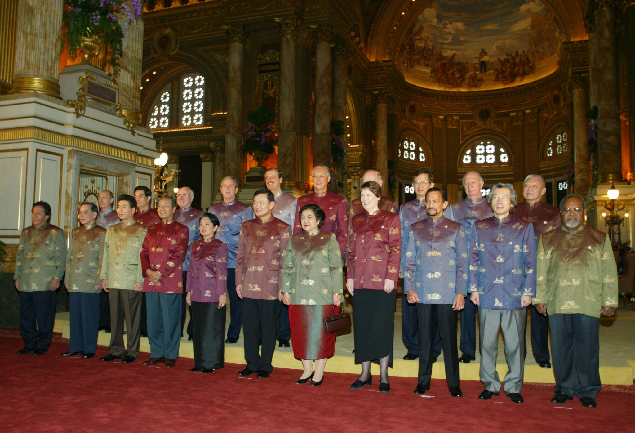 BANGKOK. Participants in the APEC summit posing for pictures.